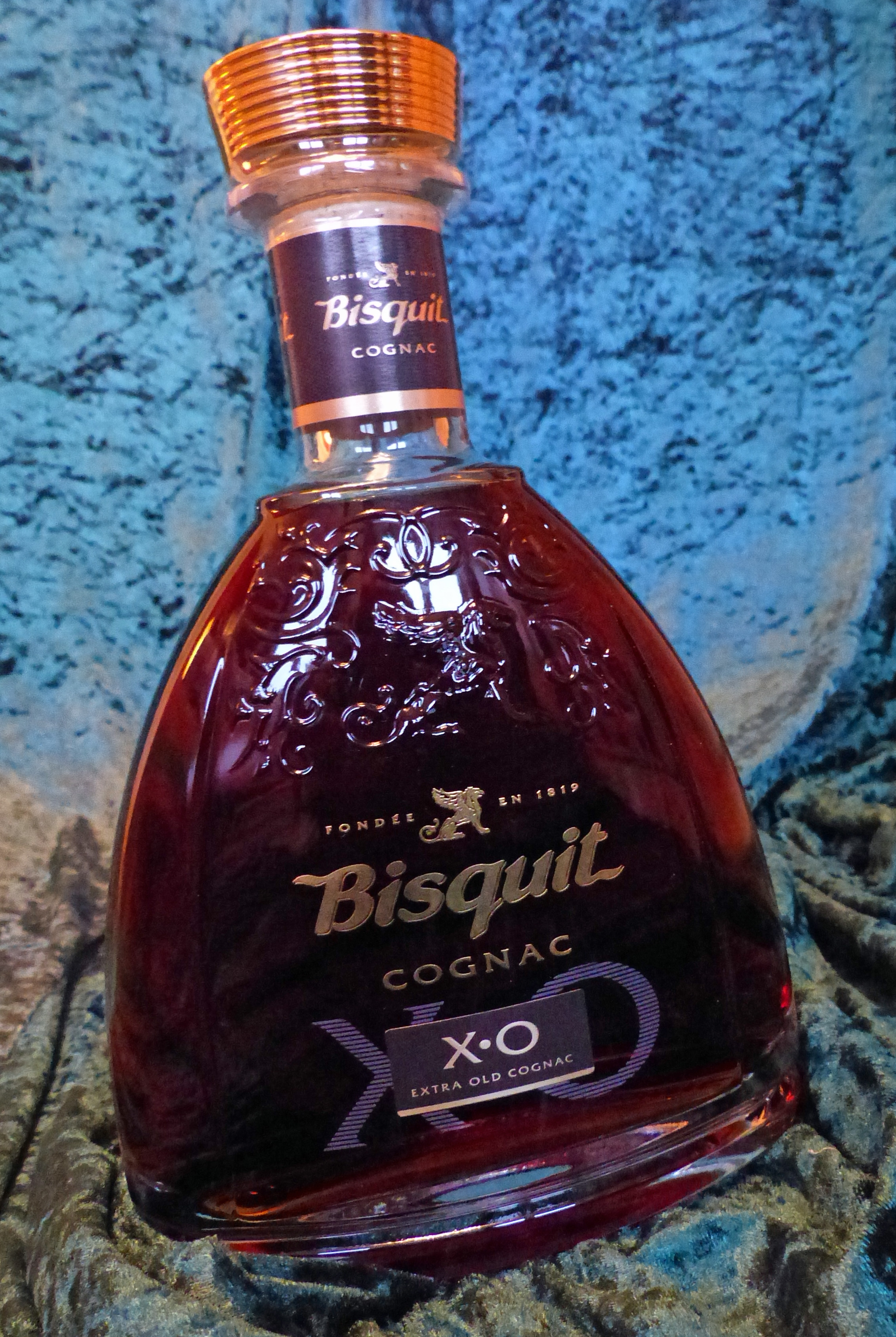 Cognac Bisquit X.O. France